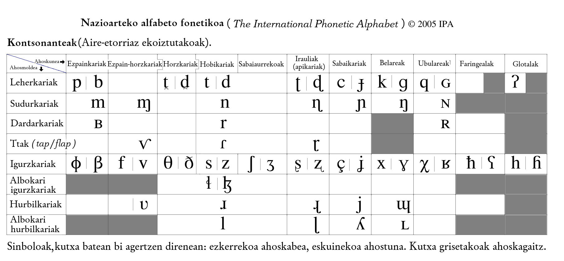 International Phonetic Alphabet translated into basque. Via IPA chart 2005. CONSONANTS (PULMONIC)